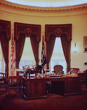 The Oval office at the White House (apparently photographed during the administration of Harry Truman; see talk page)